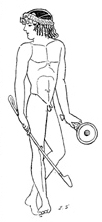 Ephebe holding a cup in his right hand and a cyathos in his left. See the small measure of the cyathos, which is also an ancient greek liquid measure unit.